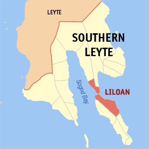 Map of Southern Leyte showing the location of Liloan